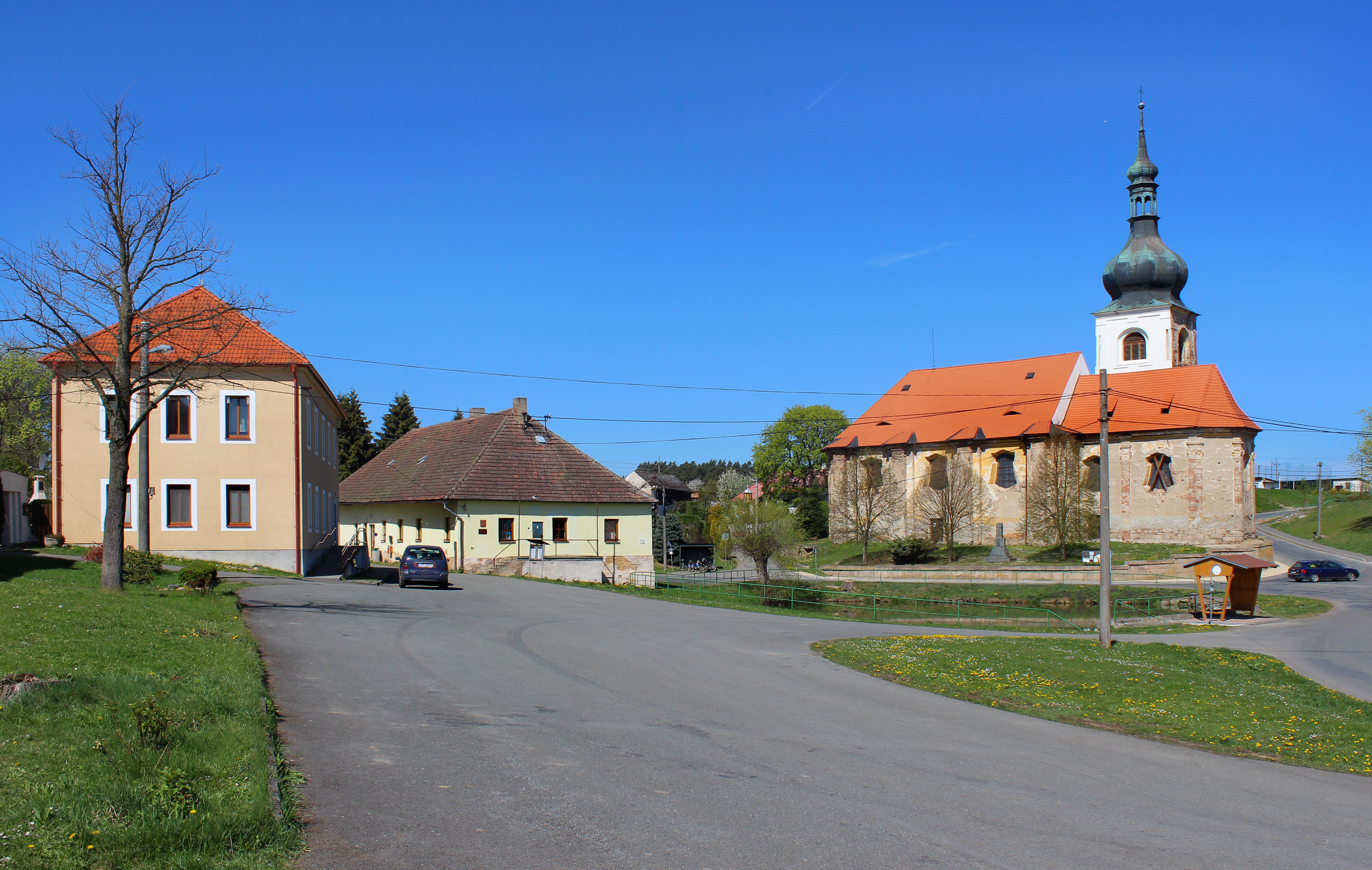 Common in Erpužice village, Czech Republic